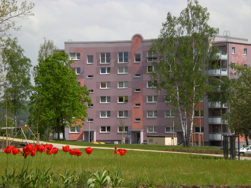 Residential district Birkenpark received the Innovation Special Award of the Association of the Thuringian Housing and Real Estate Industry in 2009.